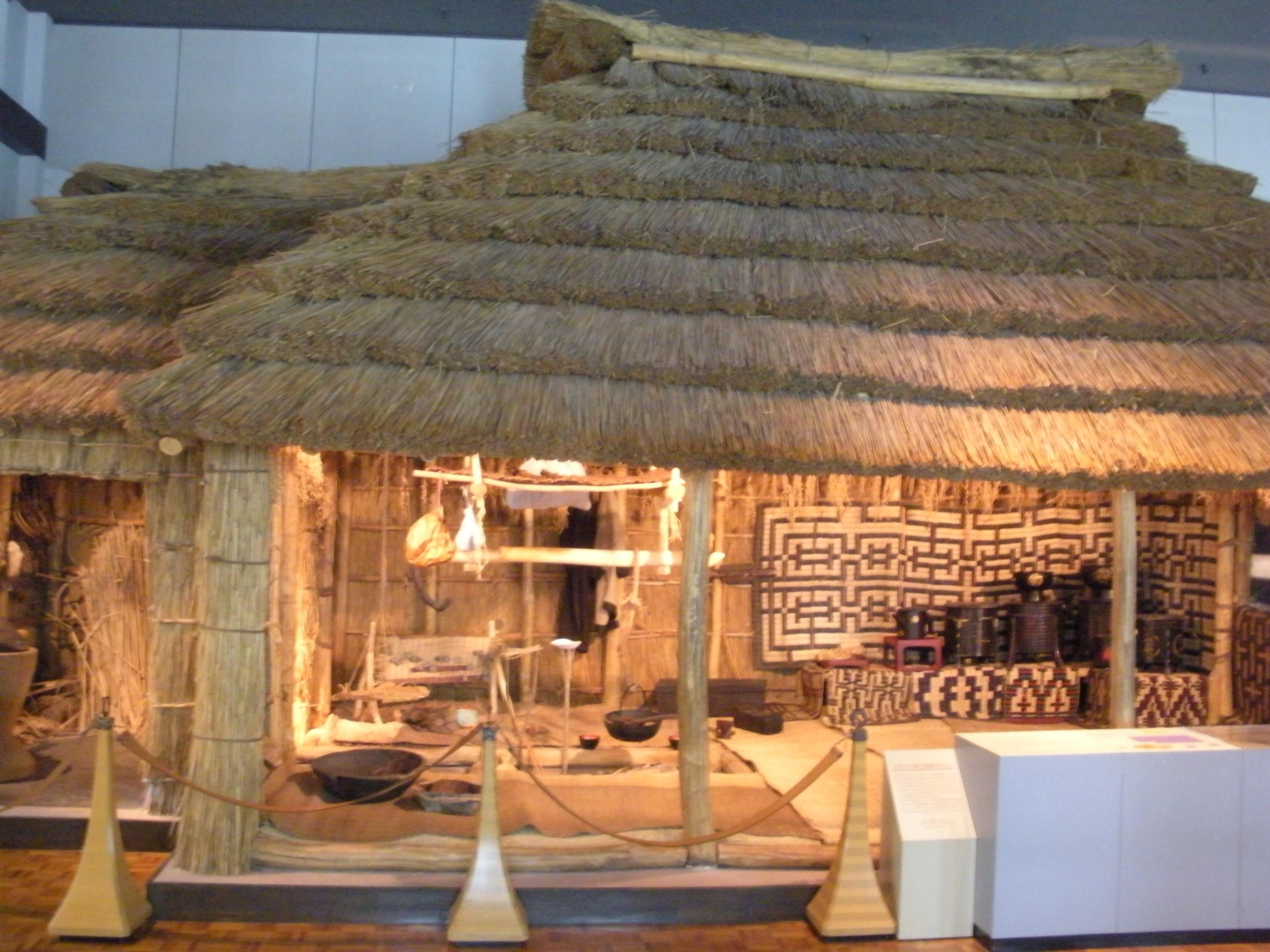 Japan Hokkaido Ainu traditional house ”cise”